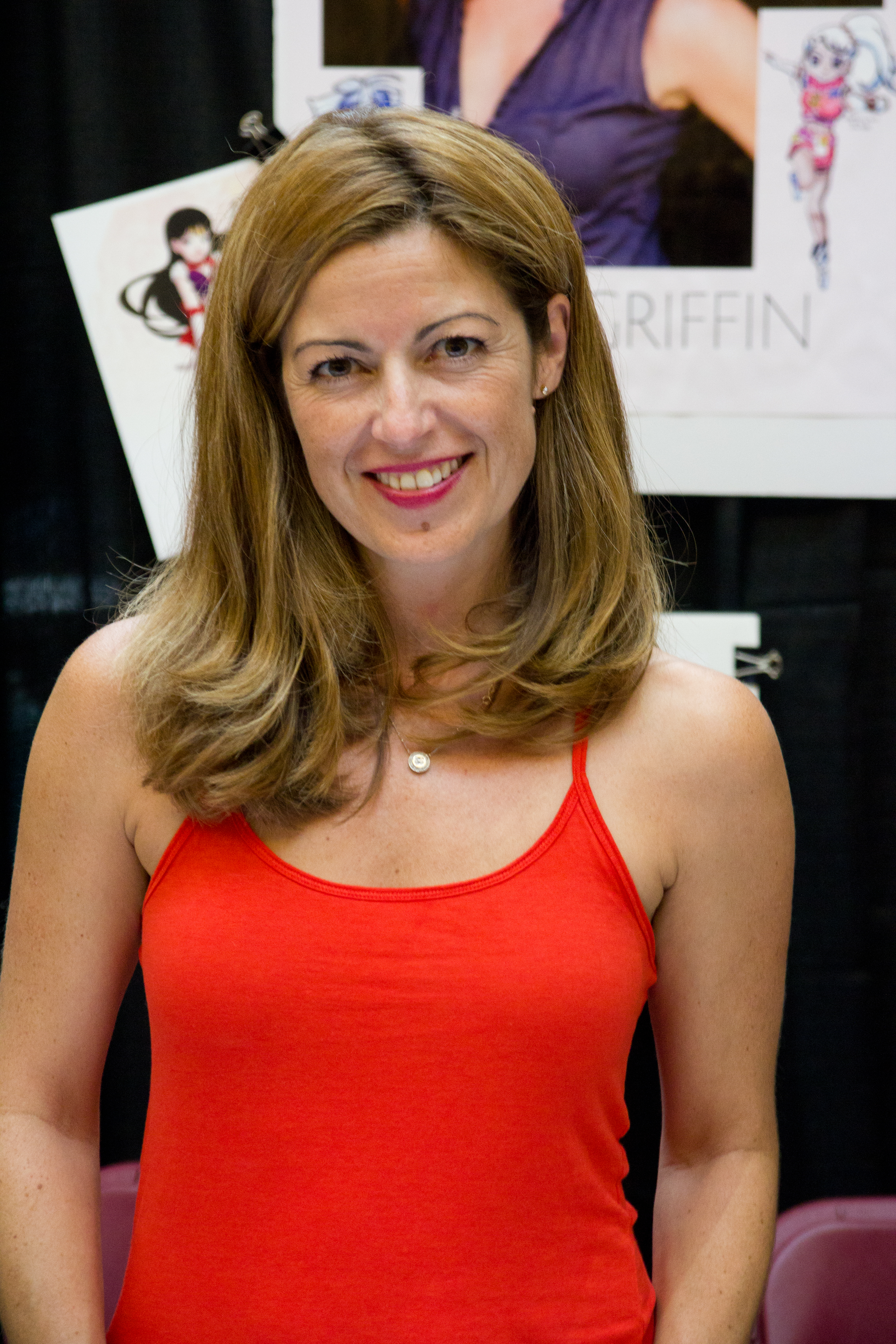 Actress Katie Griffin at the 2012 FanExpo Canada